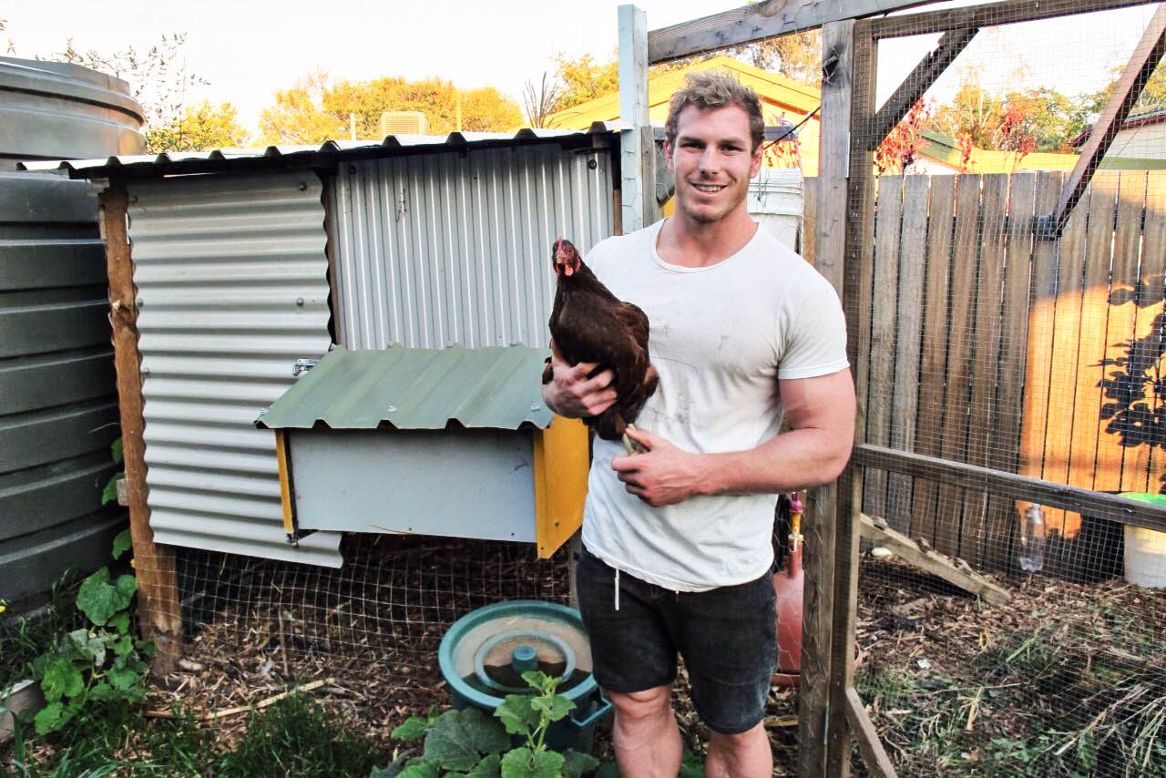 David Pocock with Alys the Rhode Island Red in his backyard in Canberra, Australia.